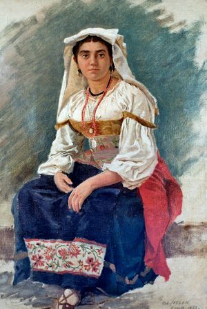 Portrait of a young woman